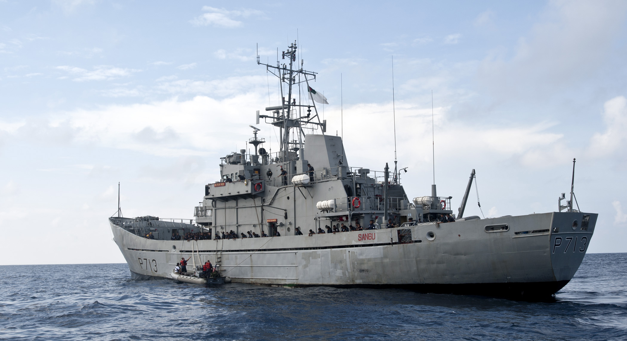 120921-N-WX059-111 BAY OF BENGAL (Sept. 21, 2012) The Bangladesh Navy Ship Sangu (P-713) steams off the coast of Bangladesh during Cooperation Afloat Readiness and Training (CARAT) 2012. CARAT is a series of bilateral military exercises between the U.S. Navy and the armed forces of Bangladesh, Brunei, Cambodia, Indonesia, Malaysia, the Philippines, Singapore, Thailand and Timor Leste. (U.S. Navy photo by Mass Communication Specialist 3rd Class Sean Furey/Released)